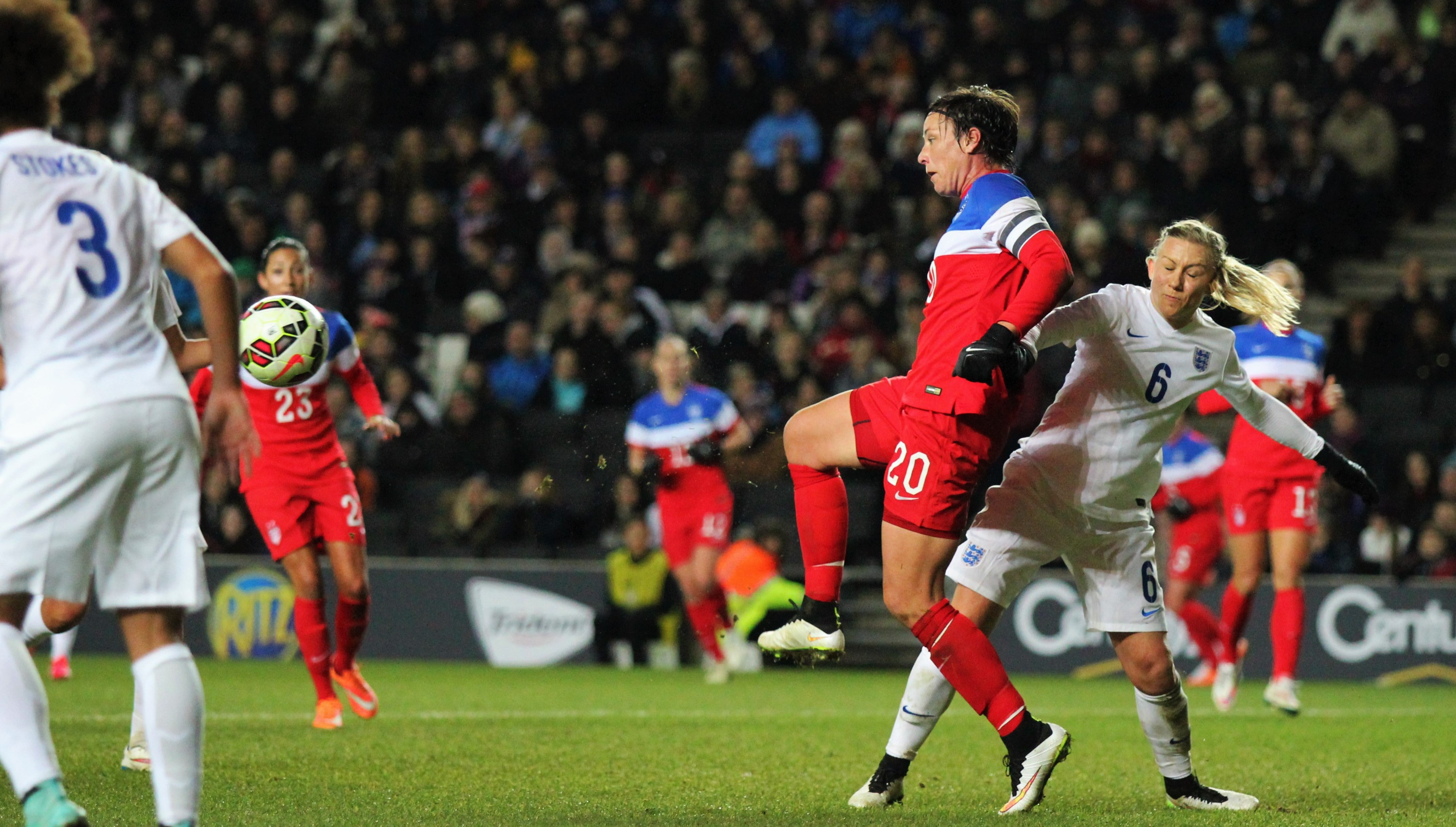 Abby Wambach of USA Women's on the ball during the game against England